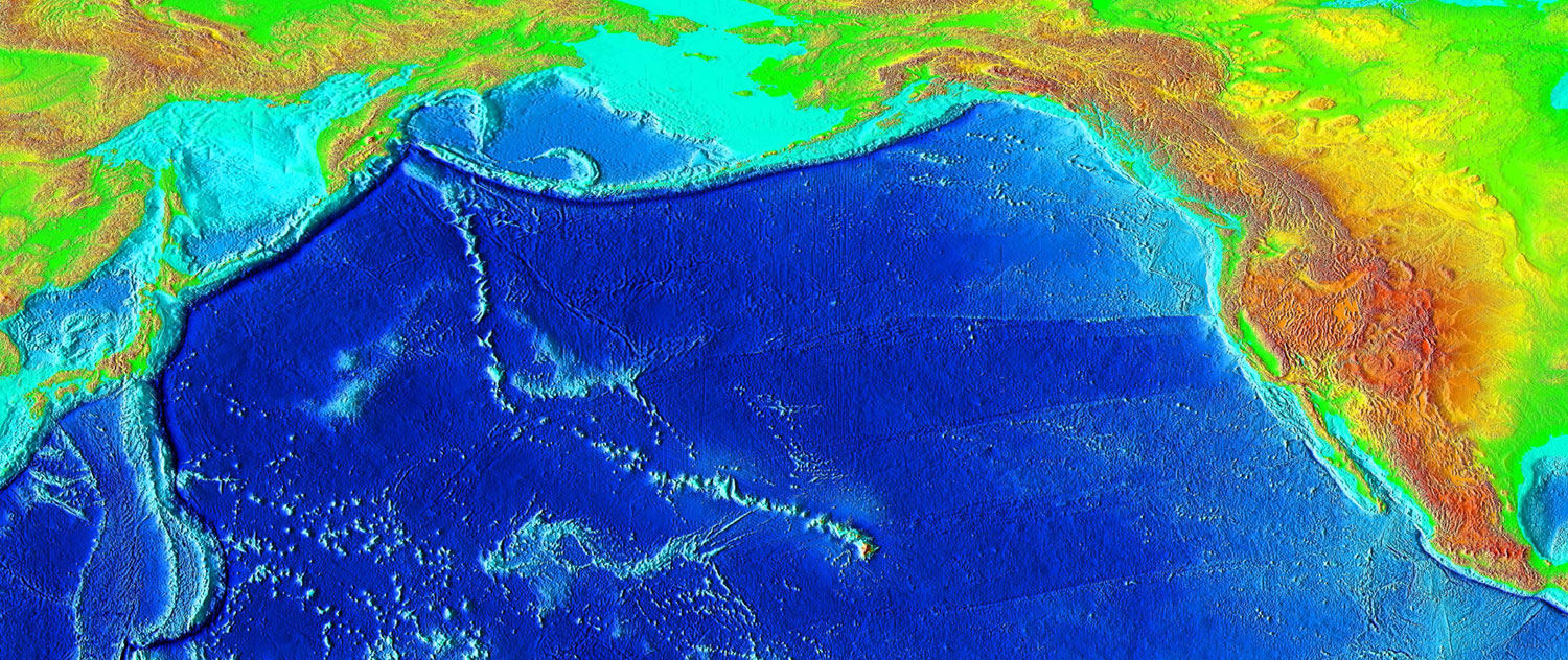 The trail of underwater mountains created as the tectonic plate moved across the Hawaii hotspot over millions of years, known as the Hawaiian-Emperor seamount chain, or the Emperor Seamounts.